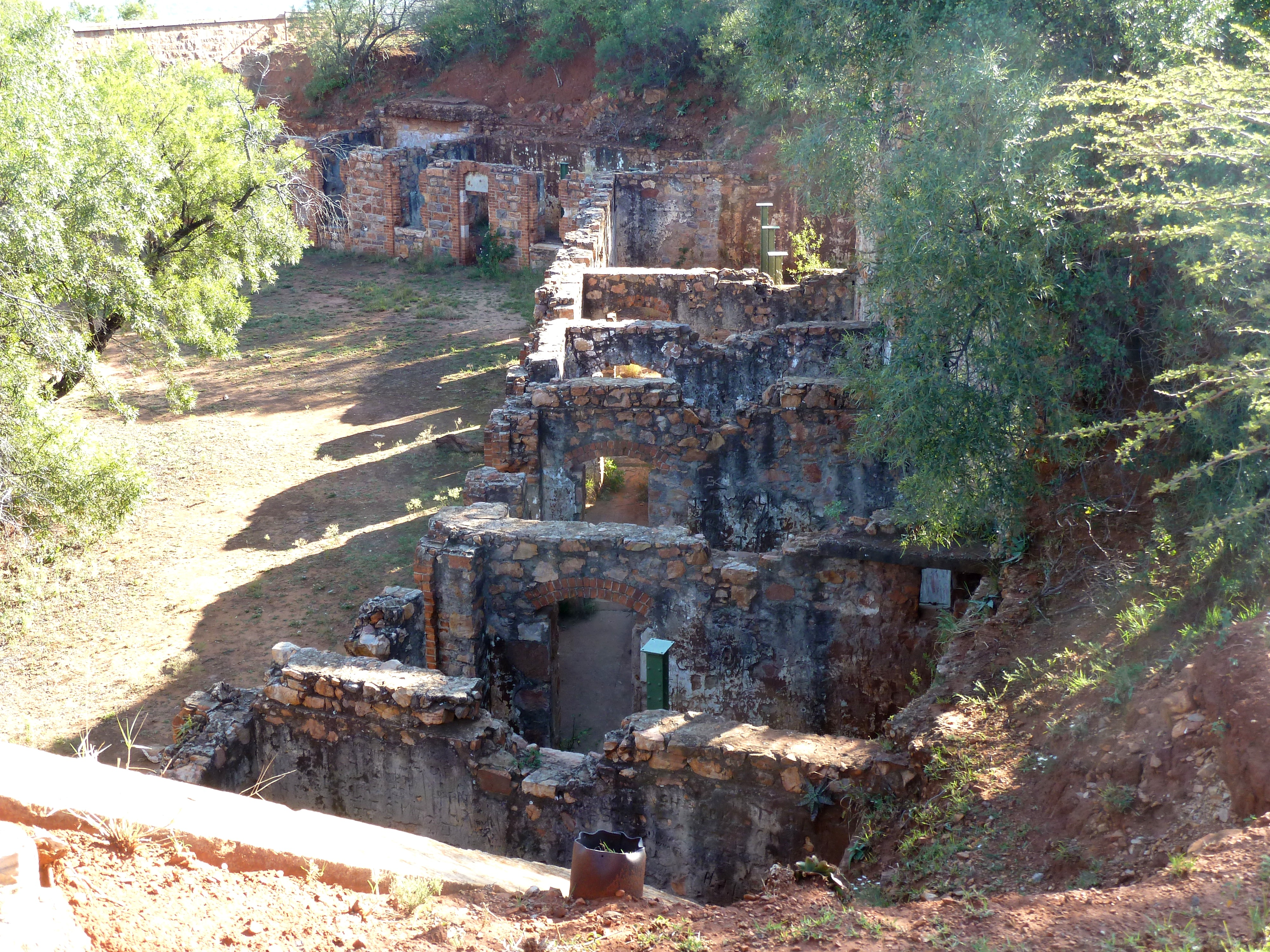 Former duty rooms and living quarters of Fort Wonderboompoort in the current Wonderboom Nature Reserve, Pretoria. Starting from the closest, they were the Ammunition store and reservoir, Hospital(?), Kitchen(?), Telegraph room, Machine room, (the large) Soldier's quarters, Provisions store, Officer's quarters and (just visible) the Stable.